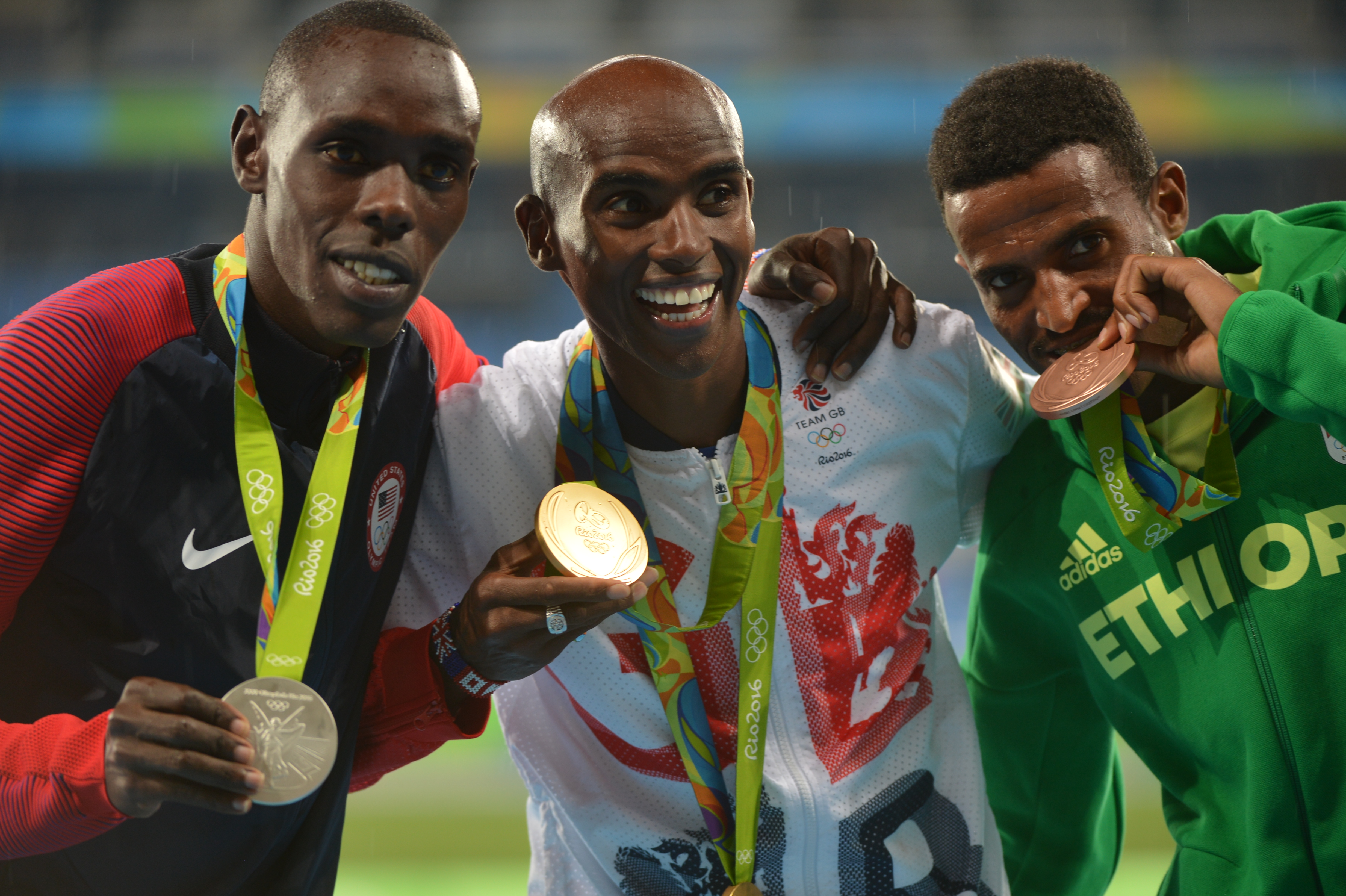 A scene from the Rio Olympic Games men's 5,000-meter run medal ceremony for silver medalist Spc. Paul Chelimo of the U.S. Army World Class Athlete Program, gold medalist Mo Farah of Great Britain and bronze medalist Hagos Gebrhiwet of Ethiopia on Aug. 20 at Olympic Stadium in Rio de Janeiro. U.S. Army photo by Tim Hipps, IMCOM Public Affairs